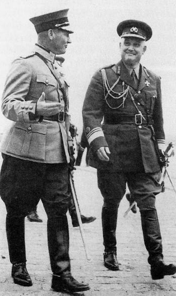 Commander-in-chief of the Estonian Army Johan Laidoner (right) and Commander of the Finnish Army Hugo Österman in Tallinn in 1938. Finns and Estonians held negotiations to deepen their top secret military cooperation.